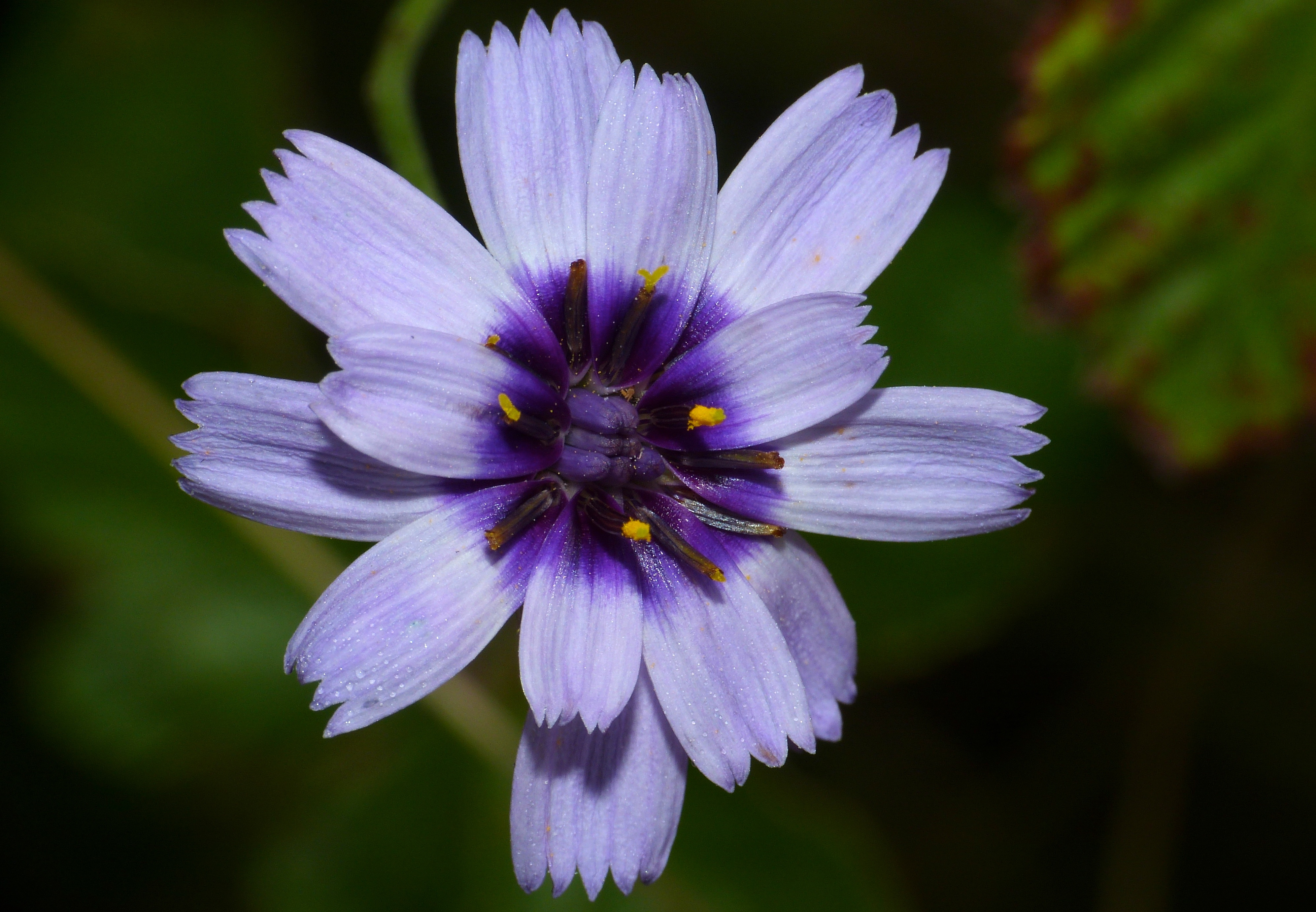 St Vallier-de-Thiey, Alpes-Maritimes, FRANCE